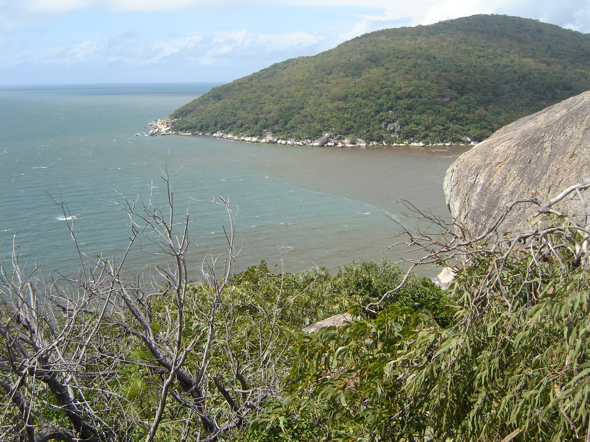 Finch Bay which forms the edge of the Botanical Gardens at Cooktown. It has popular spot to spend the afternoon for the locals. Photo taken by Frances76.